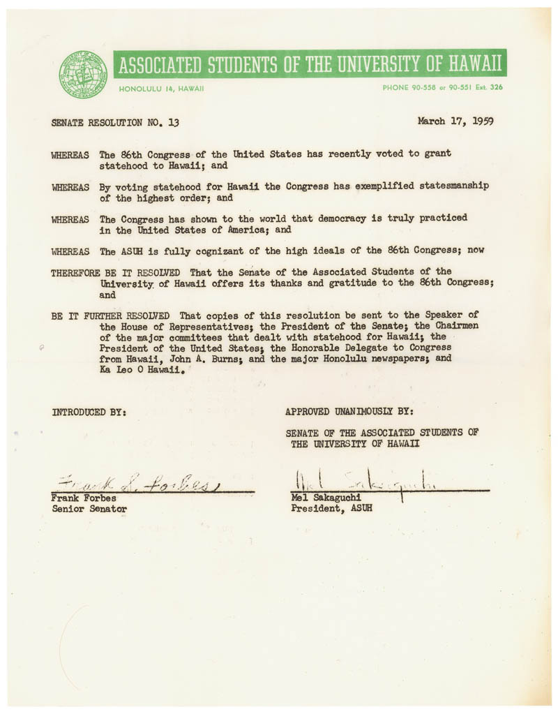 ASUH resolution regarding Statehood